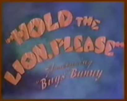 Original title card for the Bugs Bunny cartoon "Hold the Lion, Please."